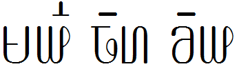 Name of Shong Lue Yang (Soob Lwj Yaj ) written in Pahawh Hmong script - Font is "Hmong Nets" - Source for Pahawh Hmong name